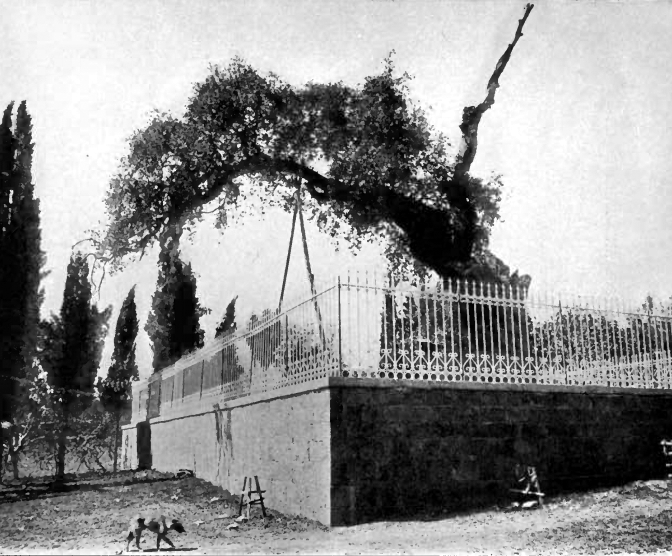 Hebron Avraham_oak